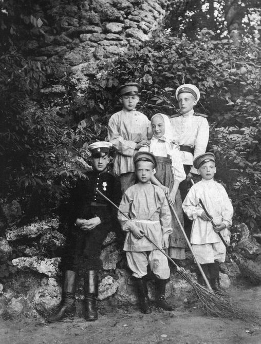 Six children of K. R., 1900 front (left to right): Ioann, Oleg, Igor back (left to right): Konstantine jr., Tatiana, Gavriil